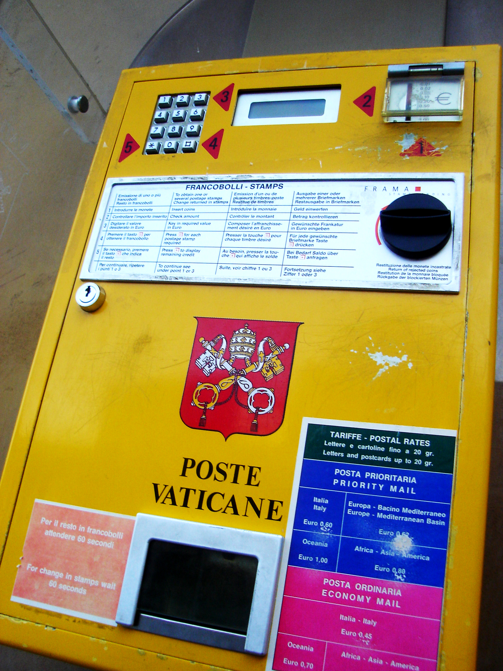 Stamp machine of the Vatican City Post Office.